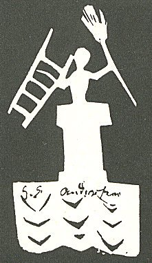 Paper silhouette of a chimney sweep by Hans Christian Andersen; see The Shepherdess and the Chimney Sweep. Denmark.